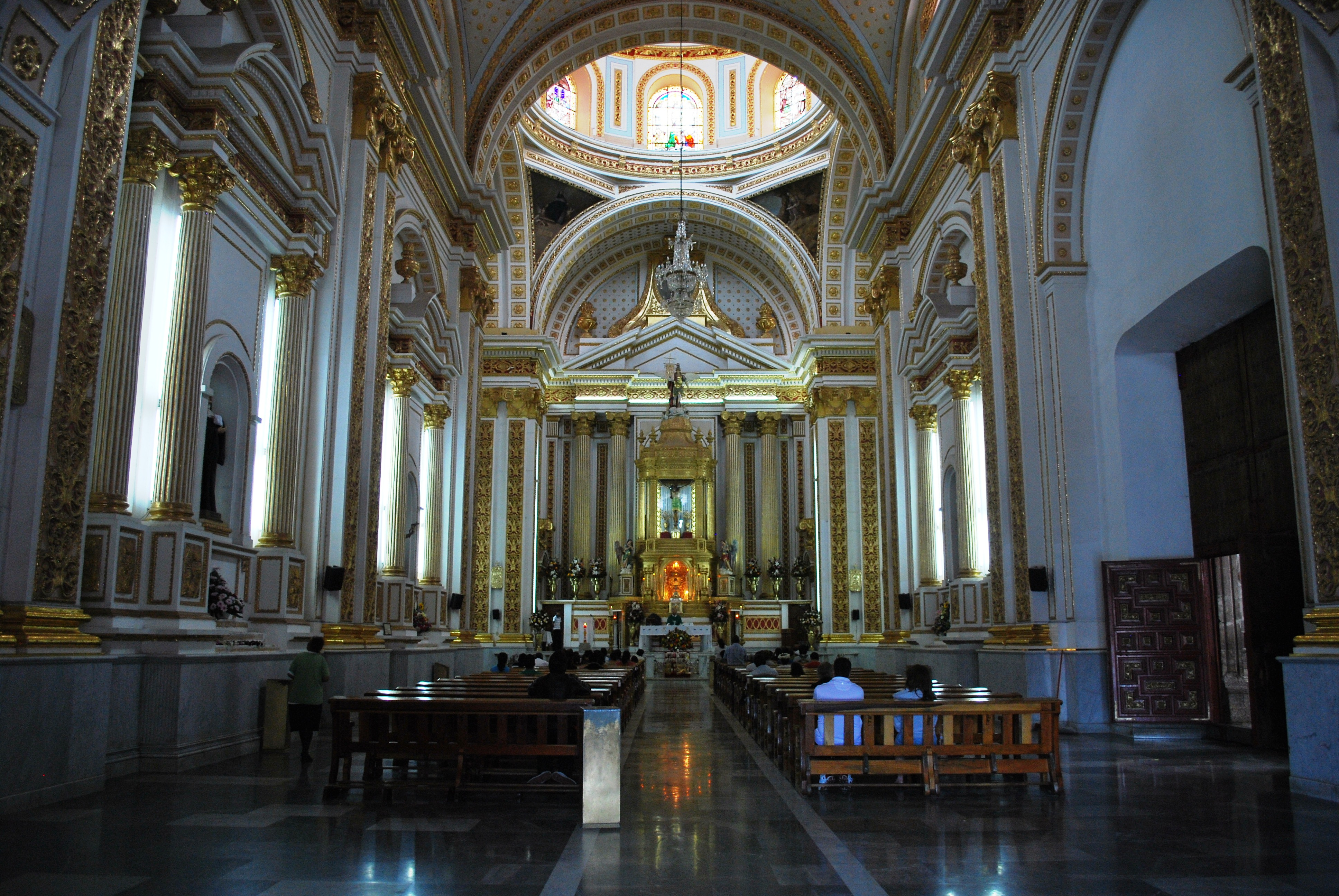 Inside the church of the Sanctuary of Chalma in Chalma, Malinalco, Mexico State